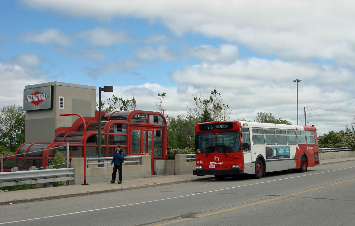 On Cyrville Road above the Transitway Station, Ottawa, Ontario